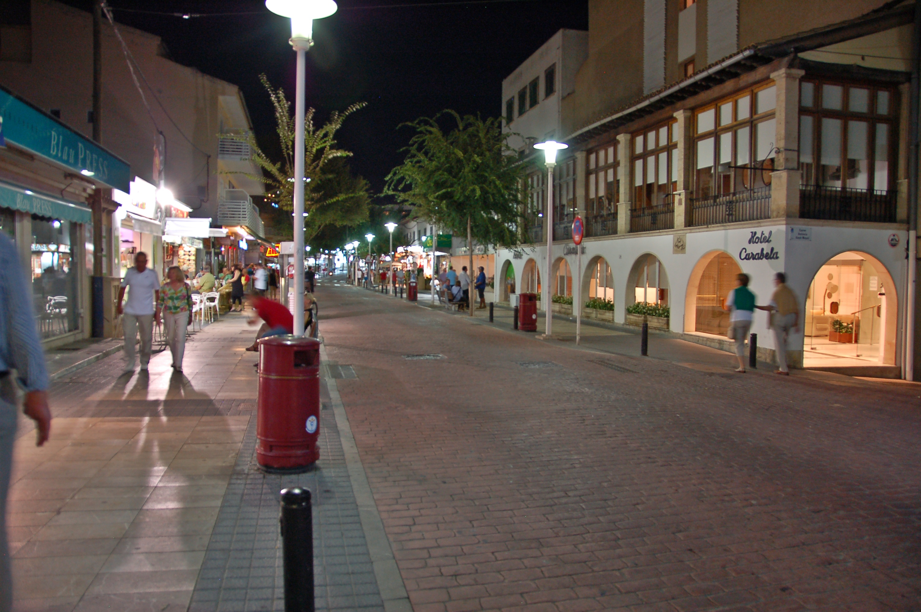 Bulevar de Peguera, main street of Peguera, closed after 19:00 for traffic